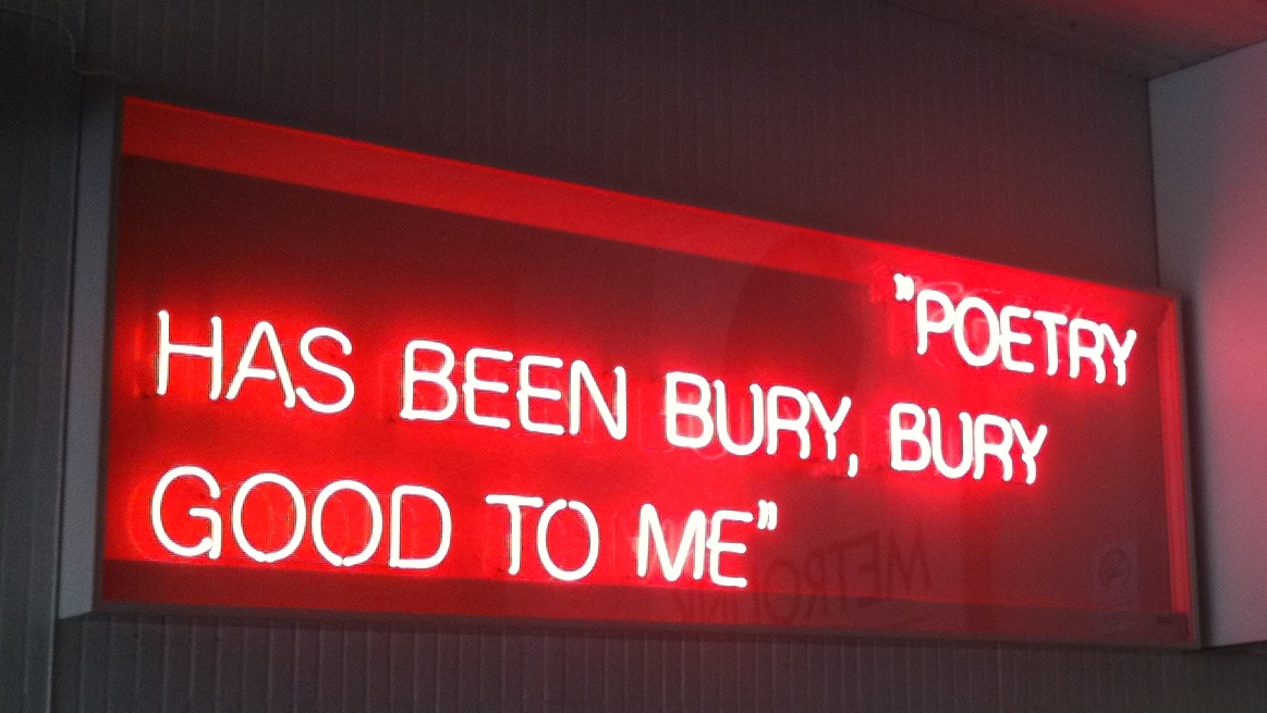 Ron Silliman's neon sculpture "From Northern Soul (Bury Neon)", located at Bury Interchange, Bury, Greater Manchester